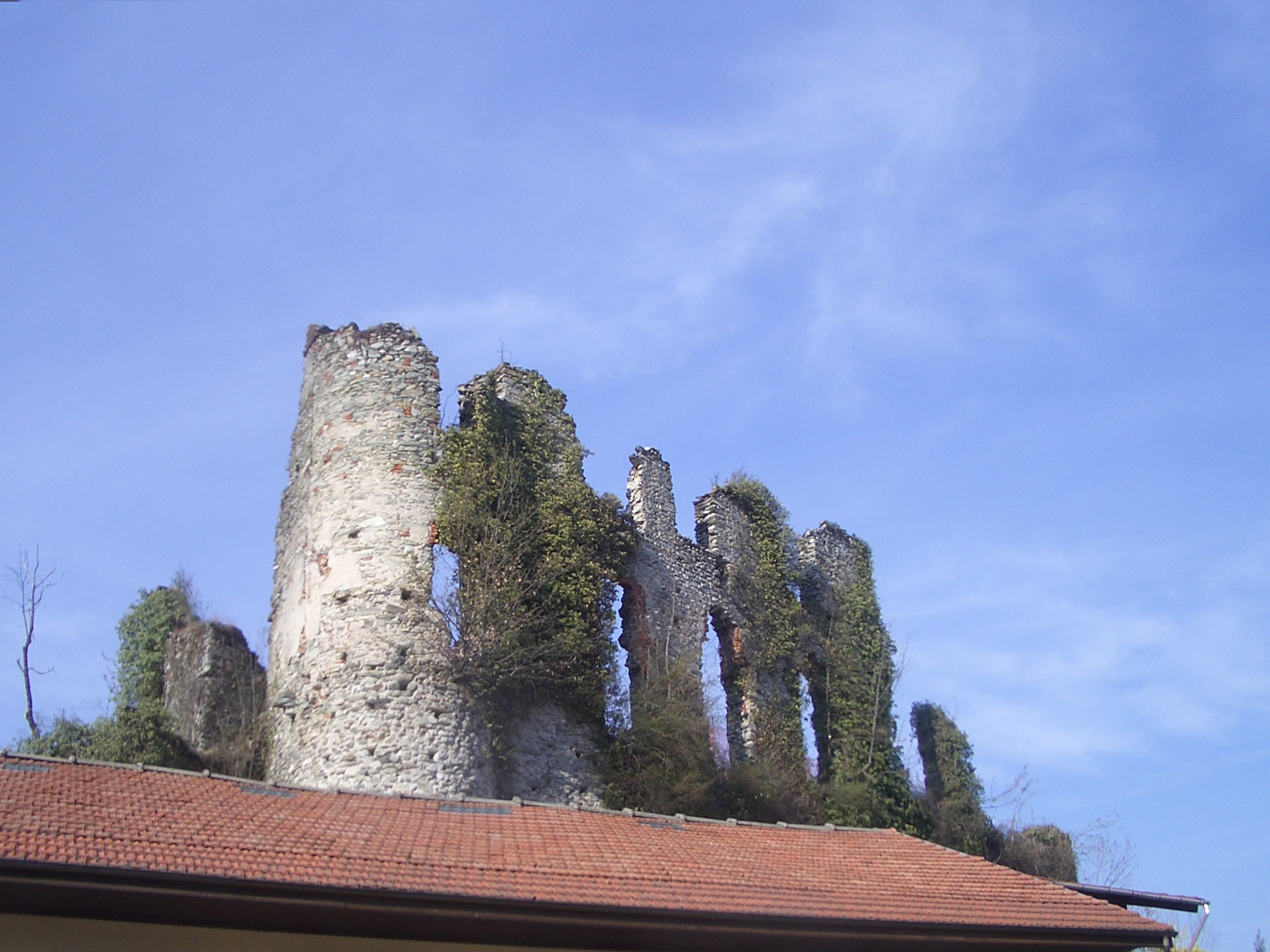 Rocca Canavese, Ruins of the ancient castle